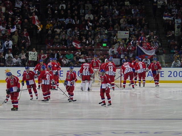 The Czech Republic men's ice hockey team at the 2002 Winter Olympics.